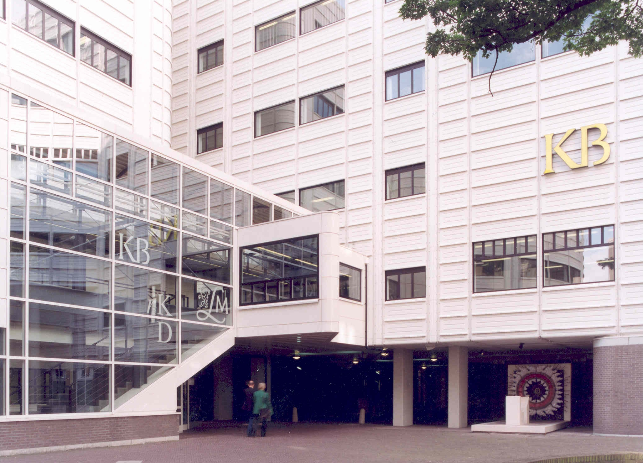 Koninklijke Bibliotheek, 2002 Voor meer informatie over de Koninklijke Bibliotheek, bezoek . Image uploaded on 02-10-2013 from the Flickr stream of the Royal Library, The Hague (Koninklijke Bibliotheek, KB, national library of the Netherlands)